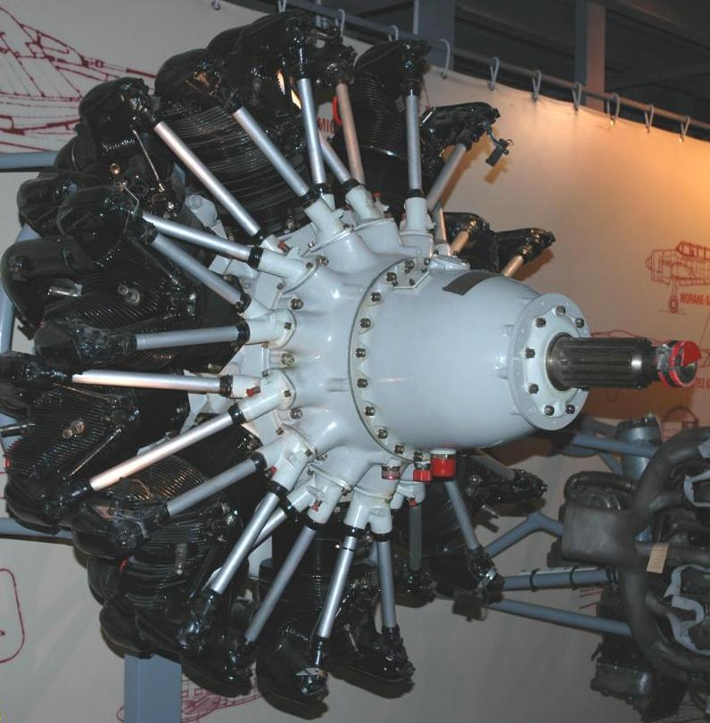 aero radial engine Gnôme Rhône 14 M05 Mars